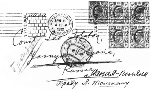 Envelope of a letter sent by Gandhi to Tolstoy, Johannesburg, April 4, 1910.